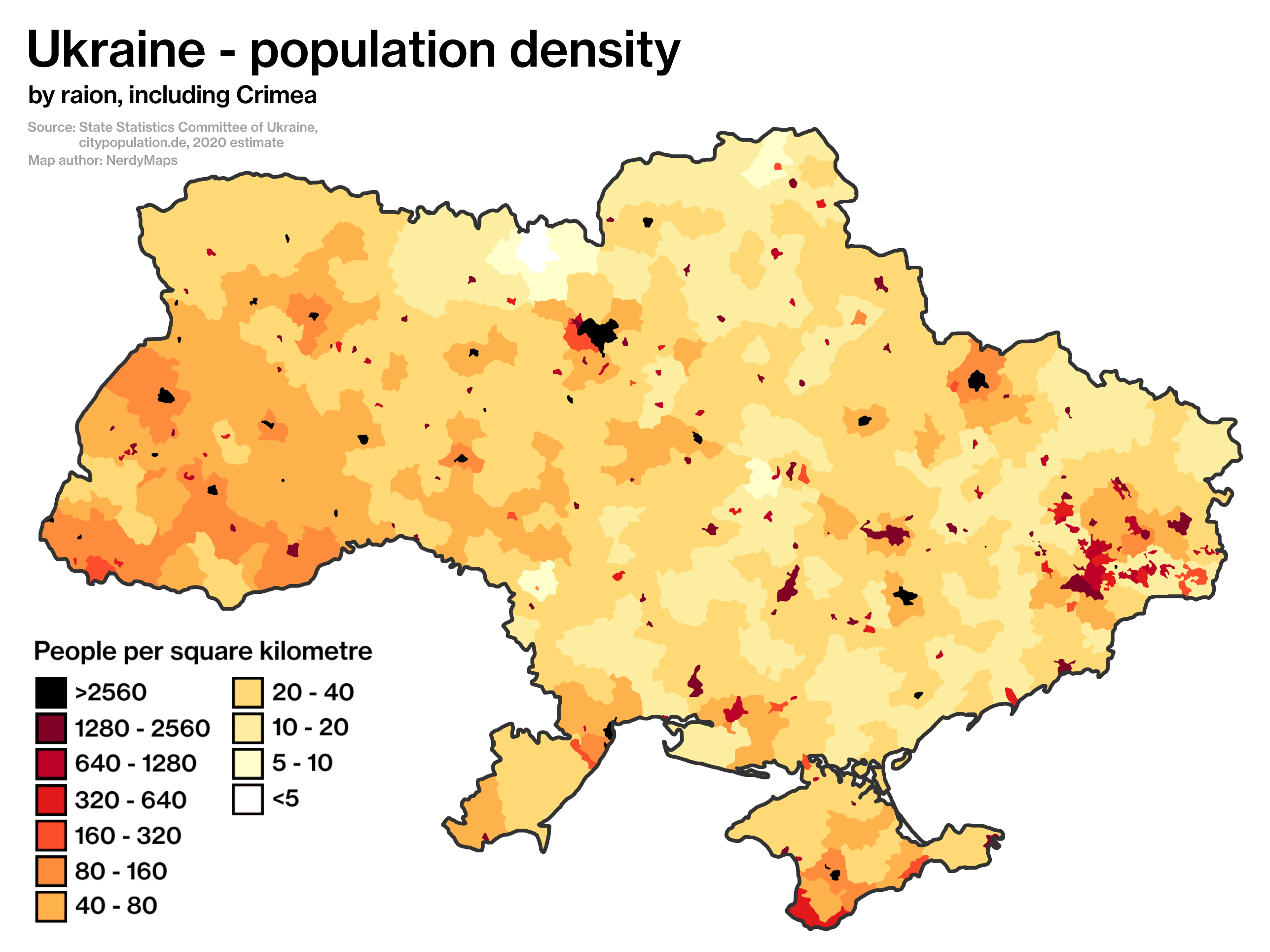 This map represents the population density in the Ukraine, by raion